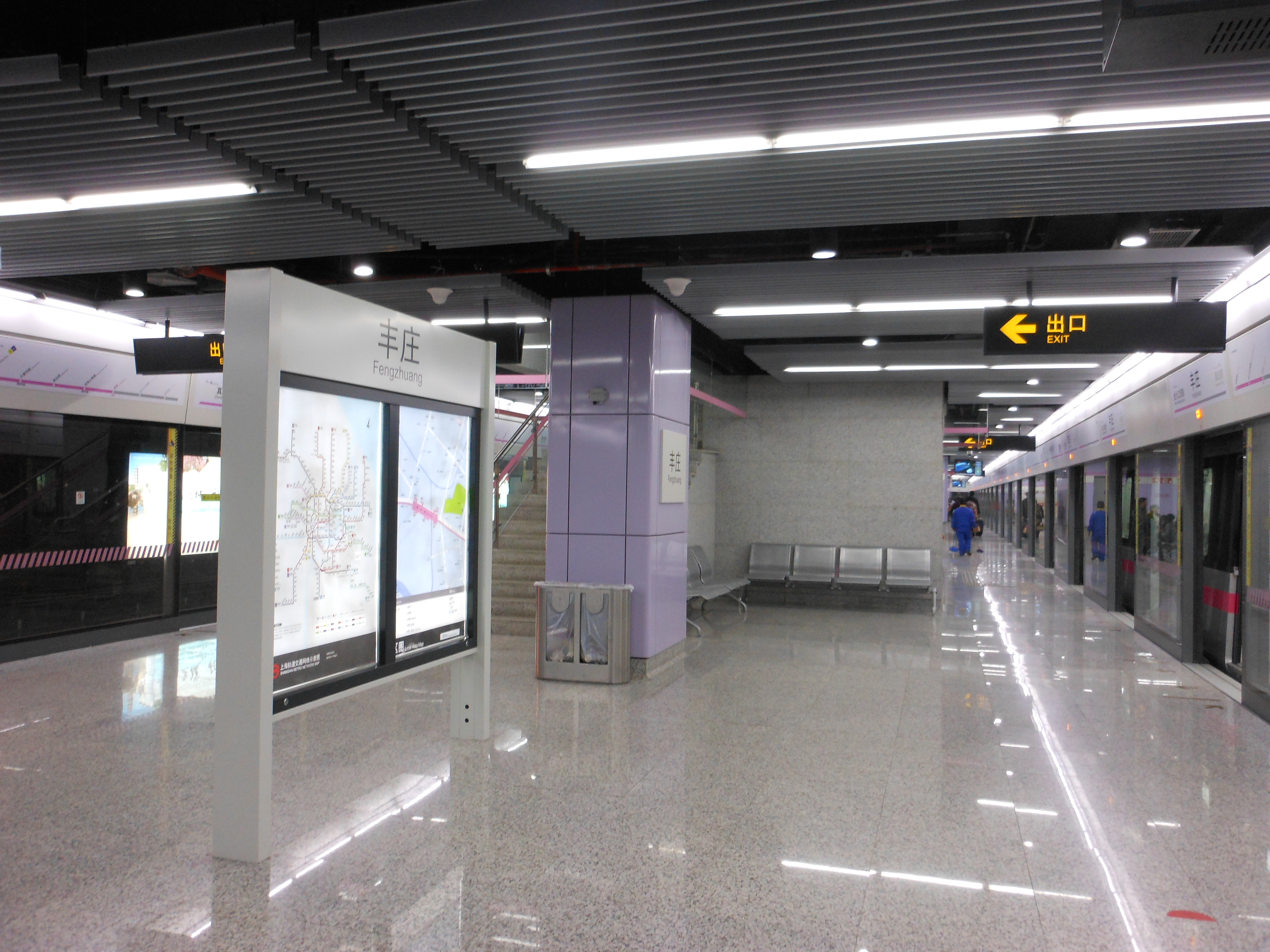 Line 13 Platform of Fengzhuang Station